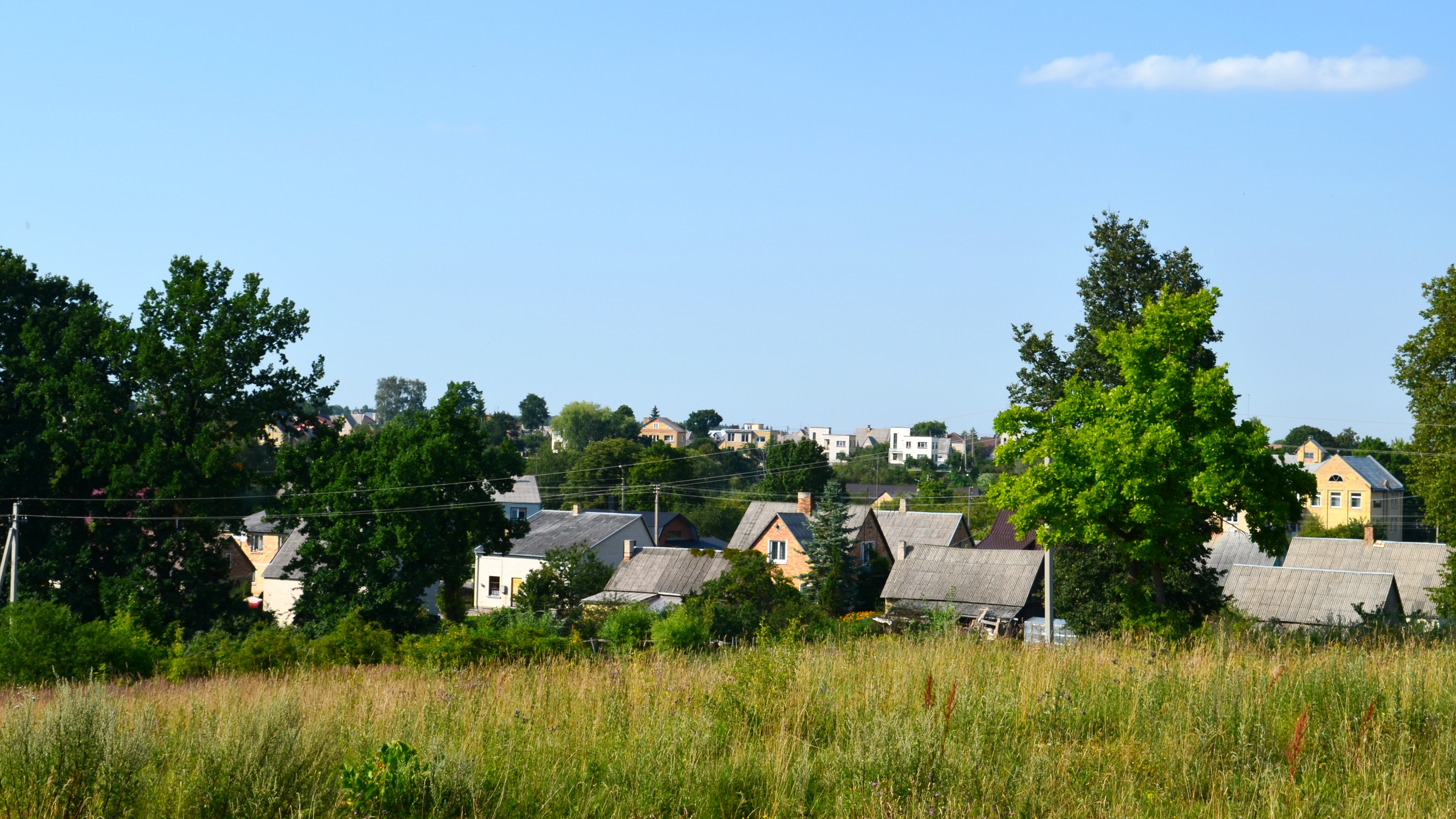 Kuršėnai city from the road to Palanga. Šiauliai district, Lithuania